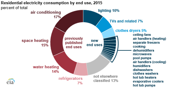 Results from the 2015 Residential Energy Consumption Survey (RECS) introduced estimates of energy consumption for an expanded list of energy end uses. June 5, 2018